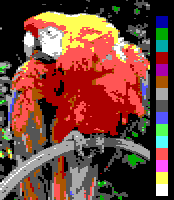 Sample image of simulated PCjr 16-color screen at 160×200